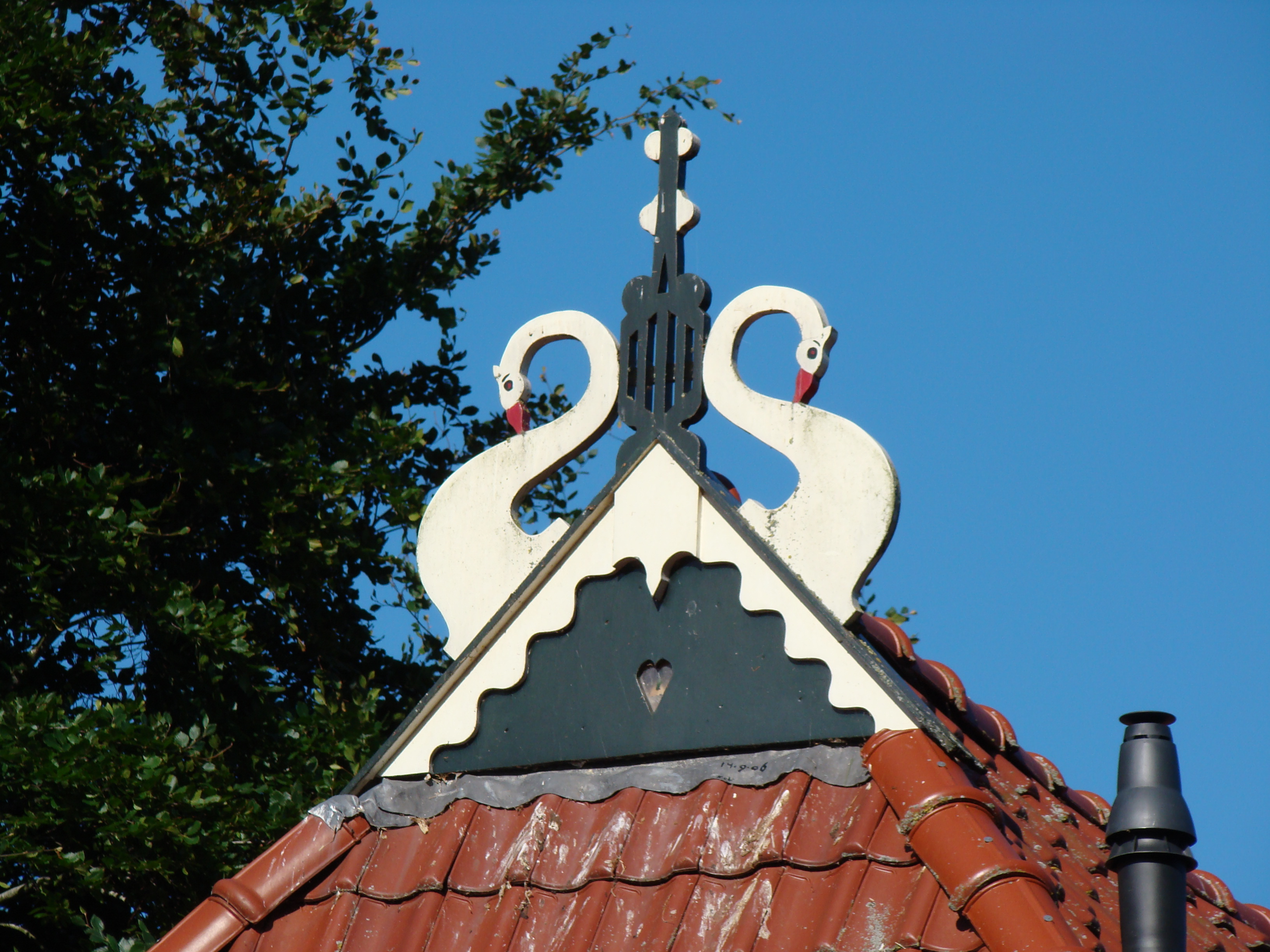 Impressions of Sloten, Netherlands